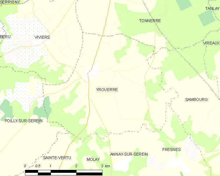 Map of French municipality Yrouerre